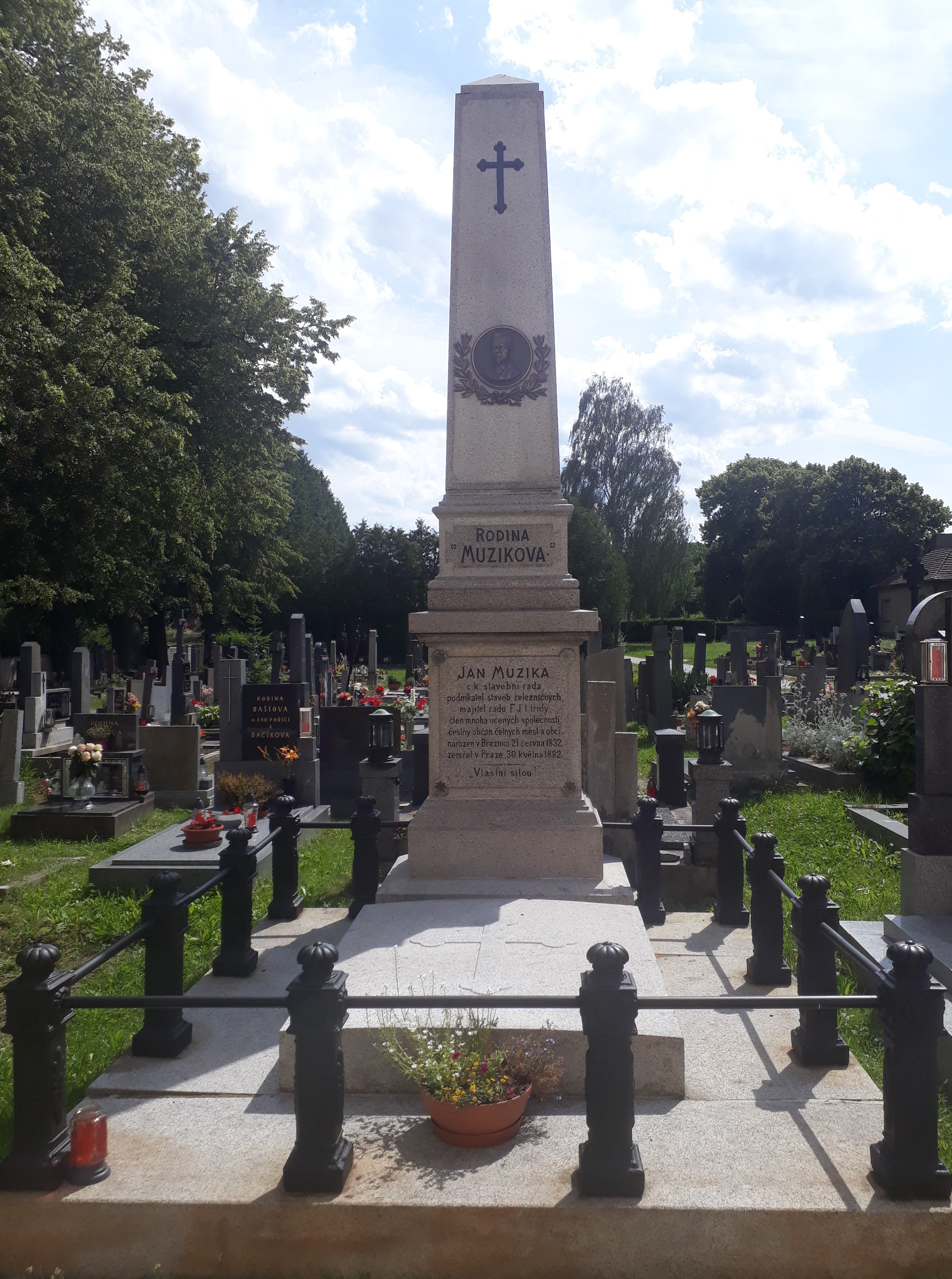 Grave of railway builder and businessman Jan Muzika (1832-1882) on Březnice Cemetery.